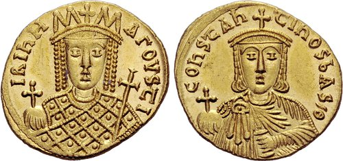 Constantine VI & Irene. 780-797. Solidus (Gold, 4.47 g 6). IRInH AΓOVSTI Bust of Irene facing, wearing crown with pinnacles and pendilia and loros, holding a cross on globe in her right hand and a cross-tipped scepter in her left. Rev. COnSTAnTInOS bAS’ Θ Beardless crowned bust of Constantine VI facing, wearing chlamys and holding cross on globe in his right hand and akakia in his left.